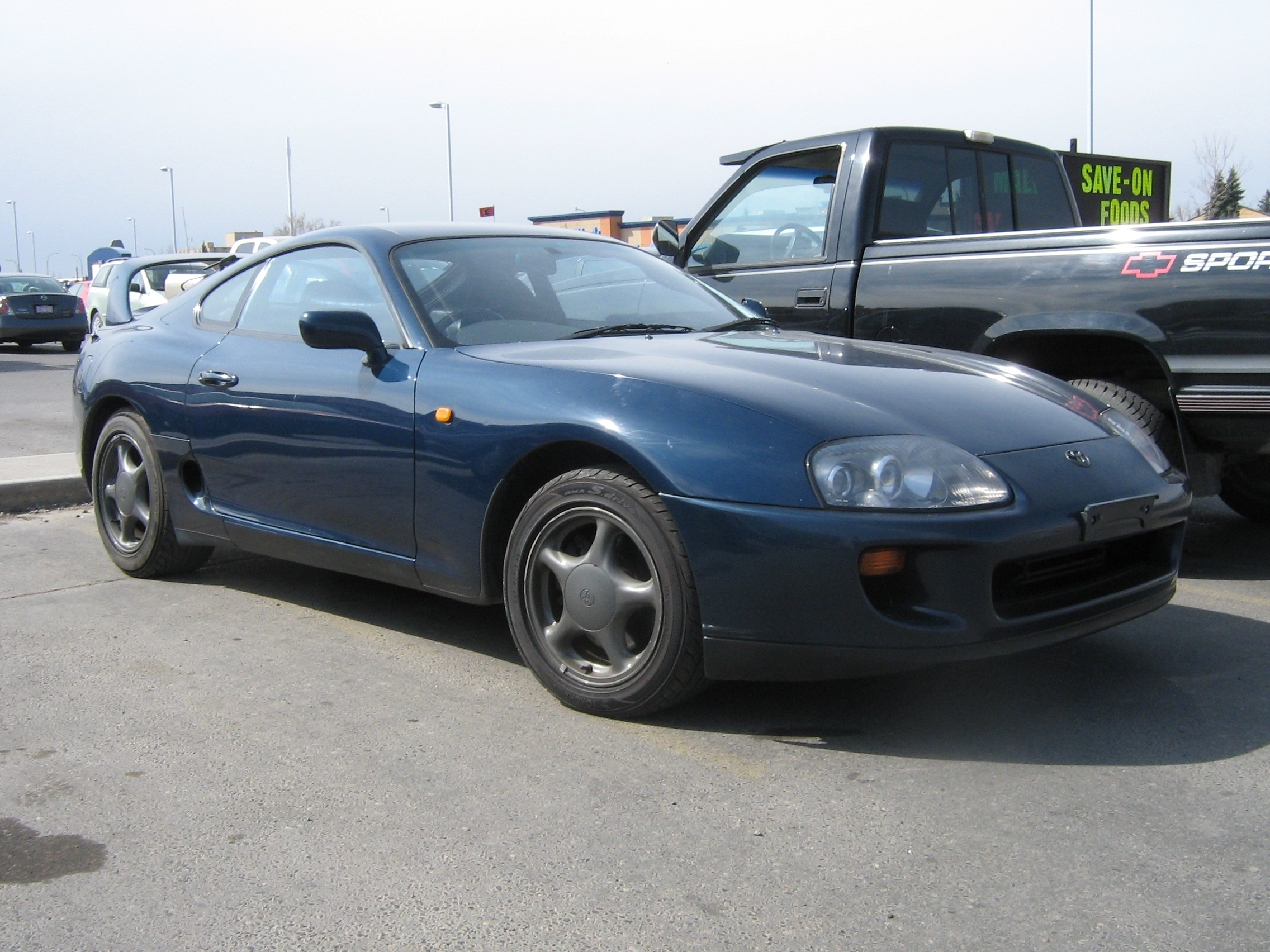 Imported right hand drive Toyota Supra. Left hand drive ones are extremely rare here but these Japanese ones are starting to show up.